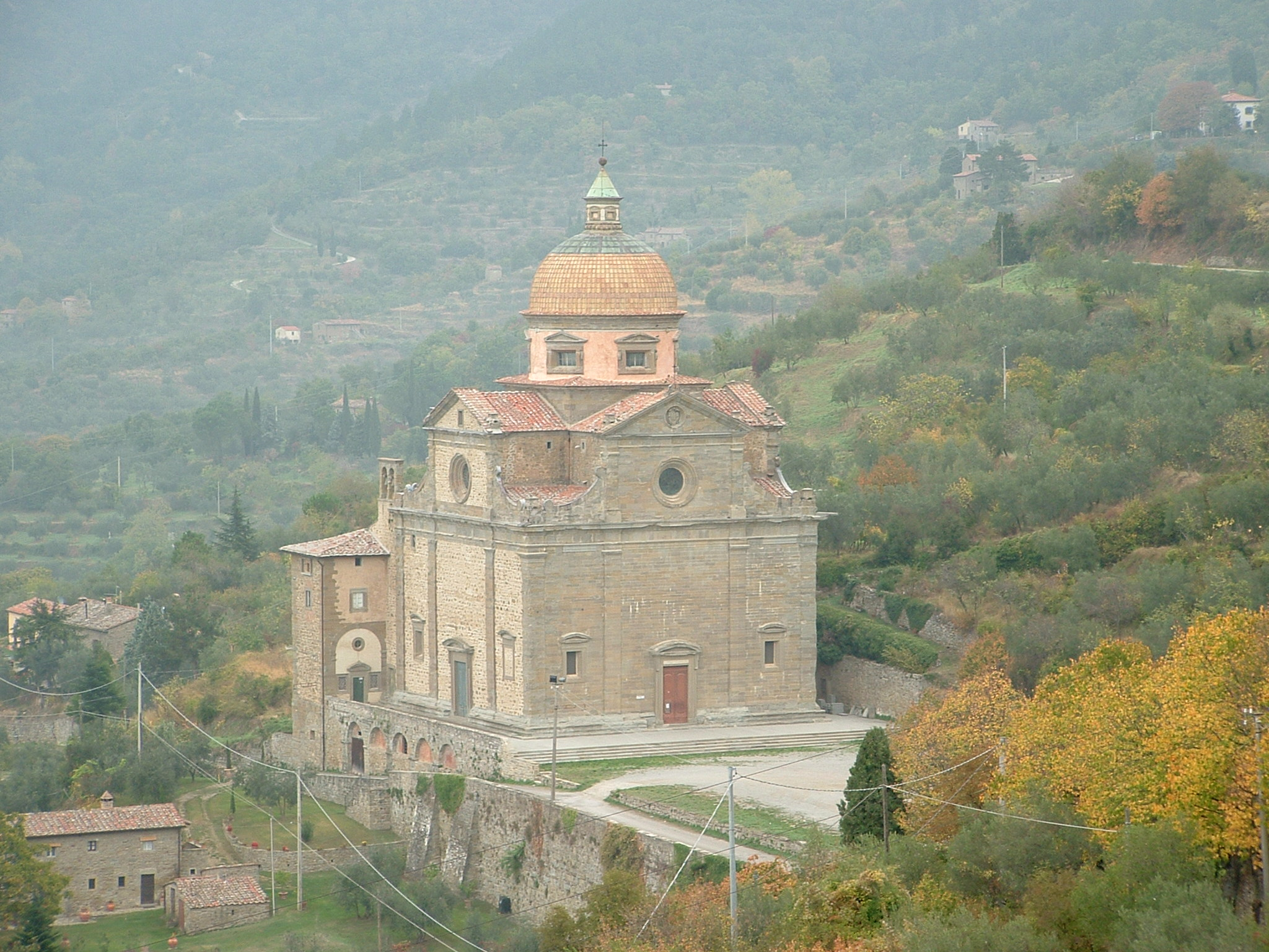 Church of Santa Maria Nuova in Cortona, Province of Arezzo, Tuscany, Italy